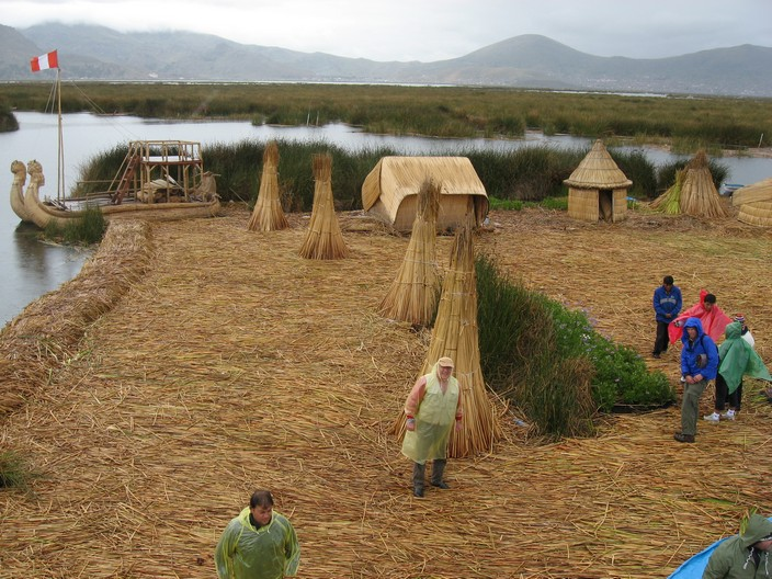 Uros group